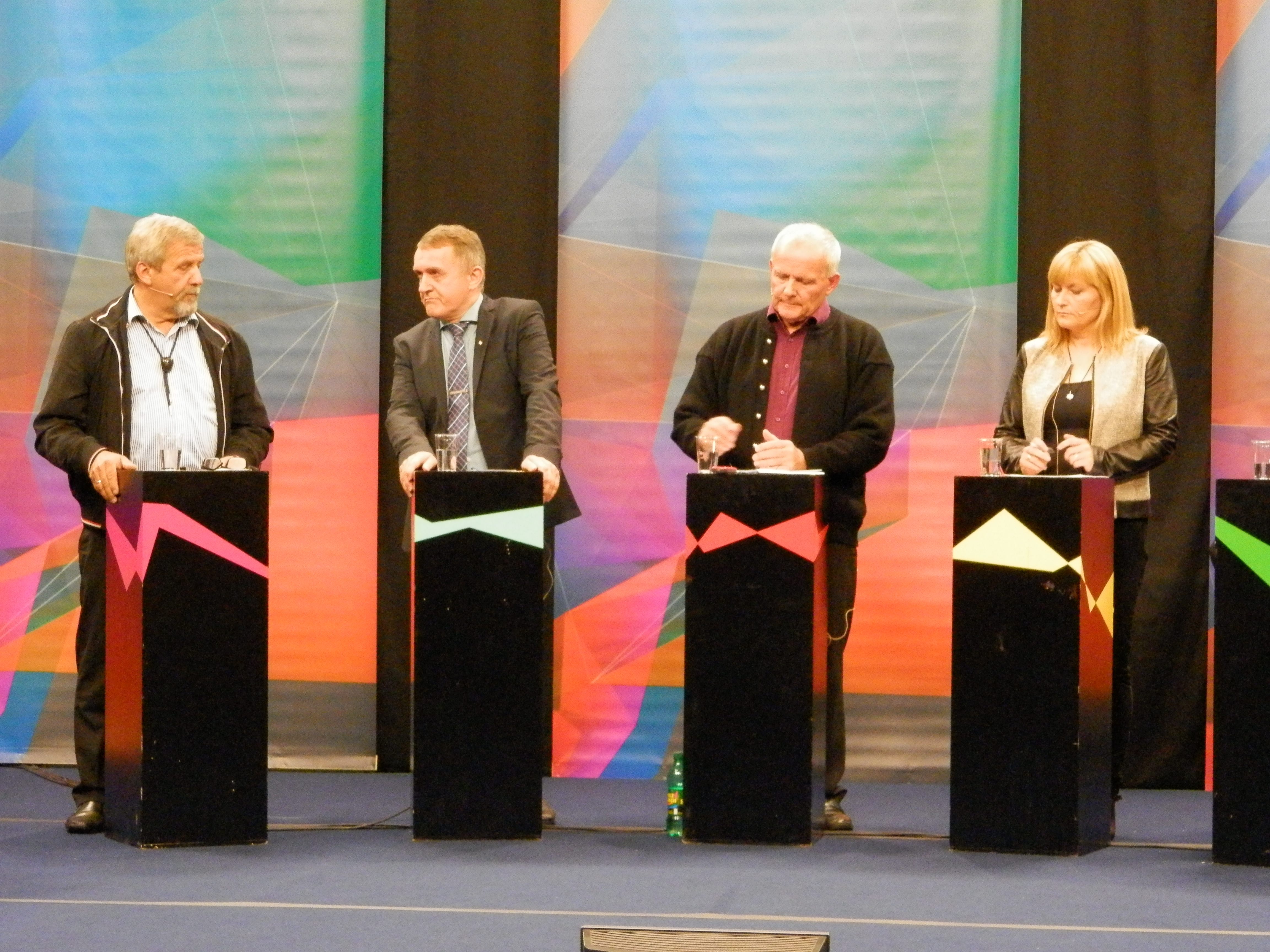 Faroese politicians one week before the parliamentary elections 2015.